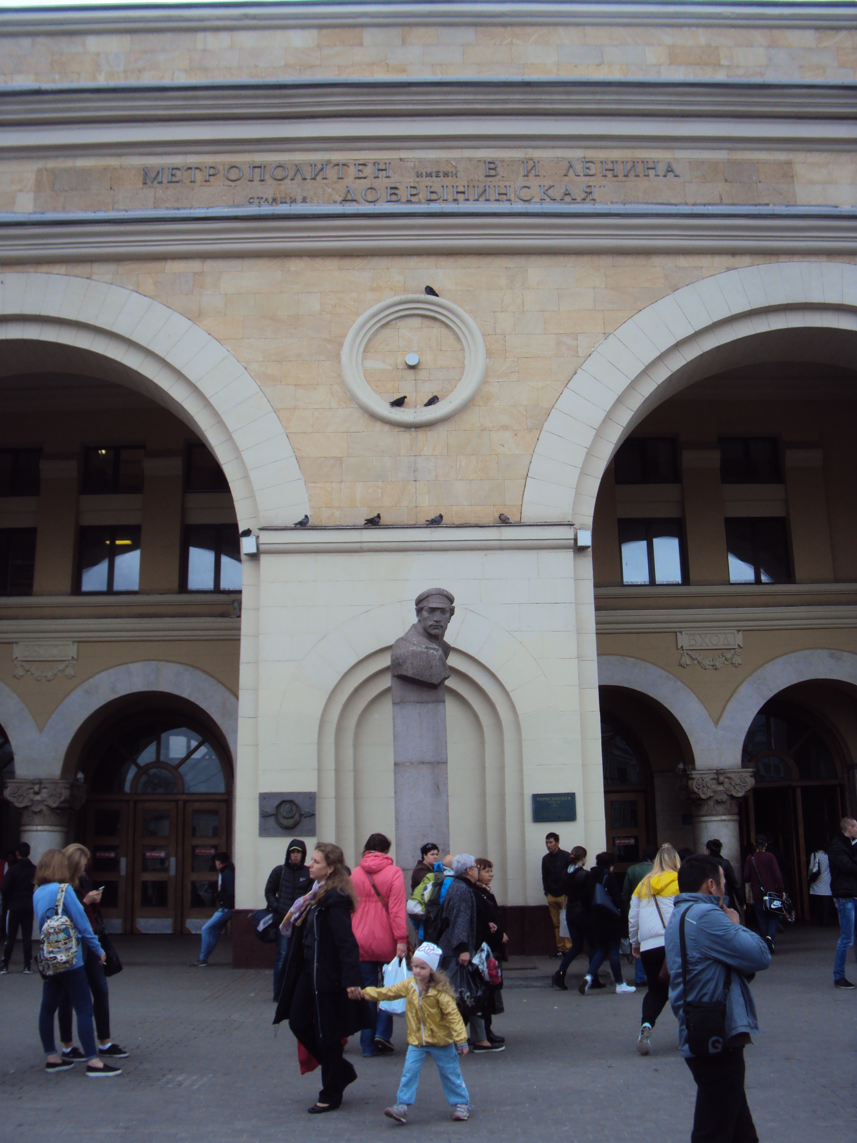 The monument of the revolutionary Peter Dobrynin